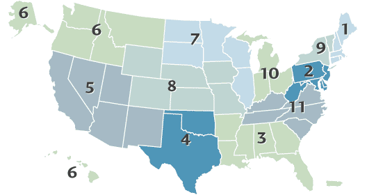 This is a map of the UNOS/OPTN operating regions. Connecticut, Maine, Massachusetts, New Hampshire, Rhode Island, and Eastern Vermont Delaware, District of Columbia, Maryland, New Jersey, Pennsylvania, West Virginia, and the part of Northern Virginia in the Donation Service Area served by the Washington Regional Transplant Community (DCTC) Organ Procurement Organization. Alabama, Arkansas, Florida, Georgia, Louisiana, Mississippi and Puerto Rico Oklahoma and Texas Arizona, California, Nevada, New Mexico and Utah Alaska, Hawaii, Idaho, Montana, Oregon and Washington Illinois, Minnesota, North Dakota, South Dakota and Wisconsin Colorado, Iowa, Kansas, Missouri, Nebraska and Wyoming New York and Western Vermont Indiana, Michigan and Ohio Kentucky, North Carolina, South Carolina, Tennessee and Virginia